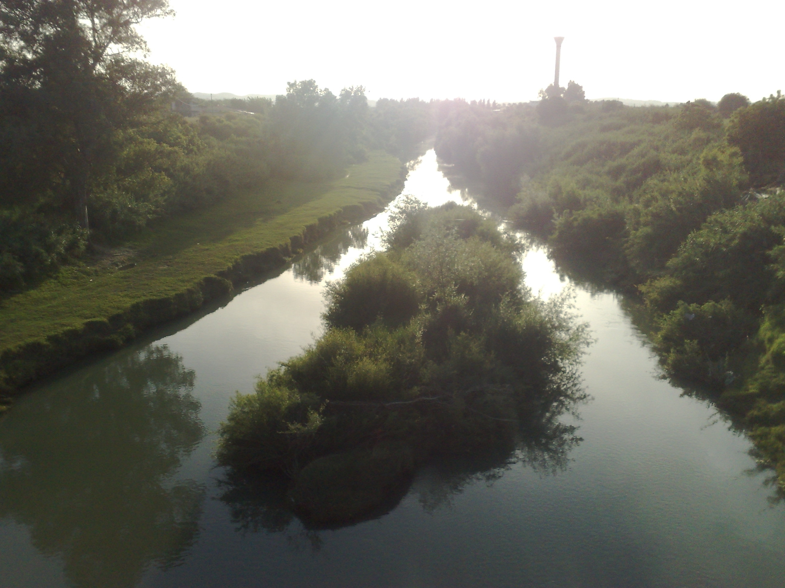 المزروعات